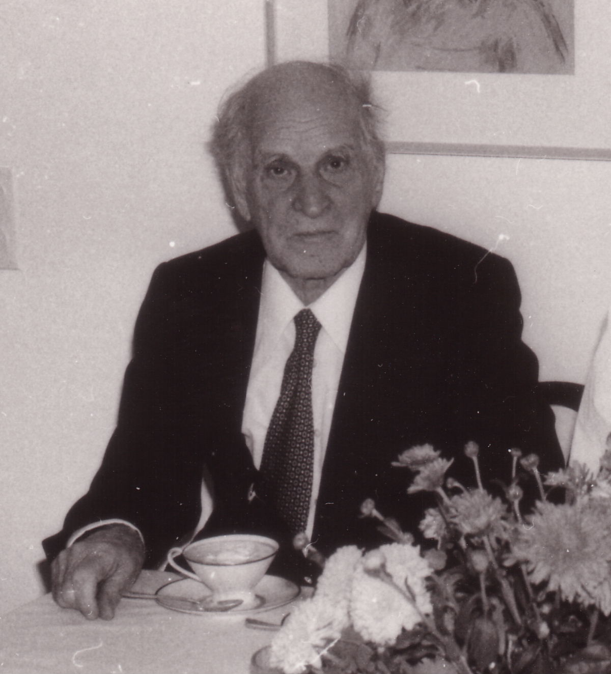 Leonid Andrussow in the year 1977, during a meeting with his family, probably in Germany. Picture sent by his daughter.